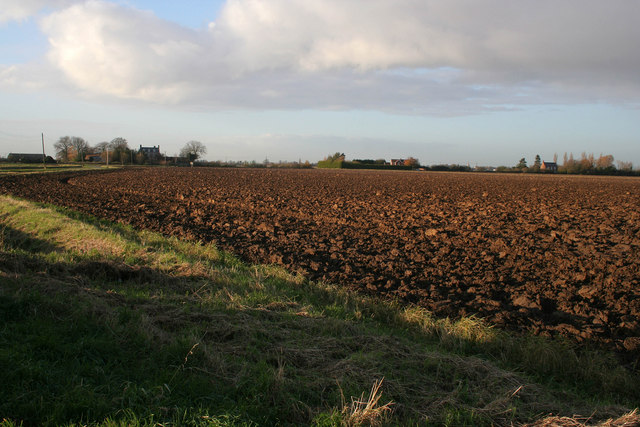 Lincolnshire Fens. This newly ploughed field is next to Cade Drove. Looking towards Harford Gate, Gedney Broadgate from the road junction at Homeleigh Farm on Hunt's Gate. The house to the far left is 619021.